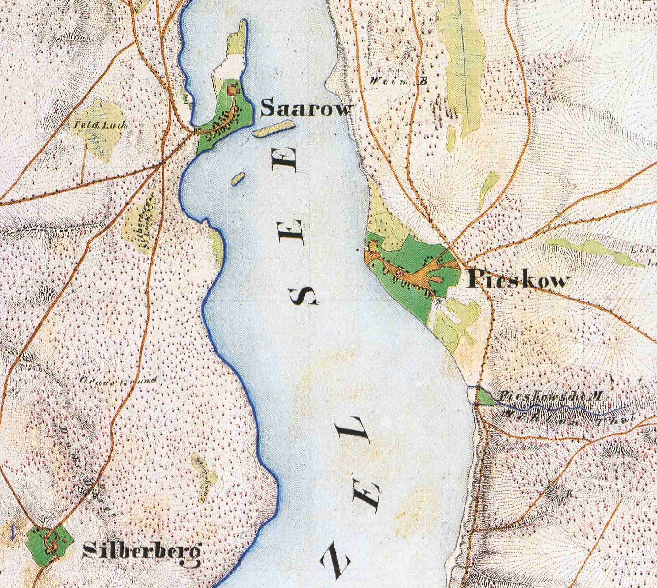 Scharmützelsee and parts of Bad Saarow (Bad Saarow Dorf, Pieskow, Silberberg) in the District Oder-Spree, Brandenburg, Germany. Detail from the Urmesstischblatt (prototype planetable sheet at 1:25,000) Sheet 3750 Bad Saarow-Pieskow, drawn in 1844.